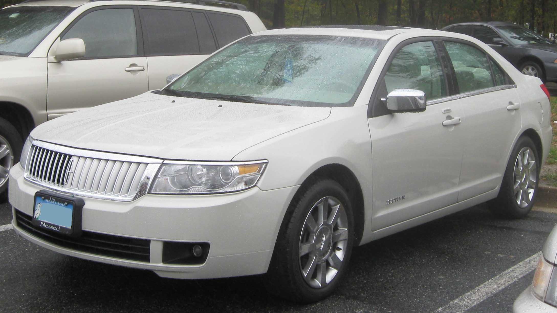 2006 Lincoln Zephyr photographed in Waldorf, Maryland, USA.